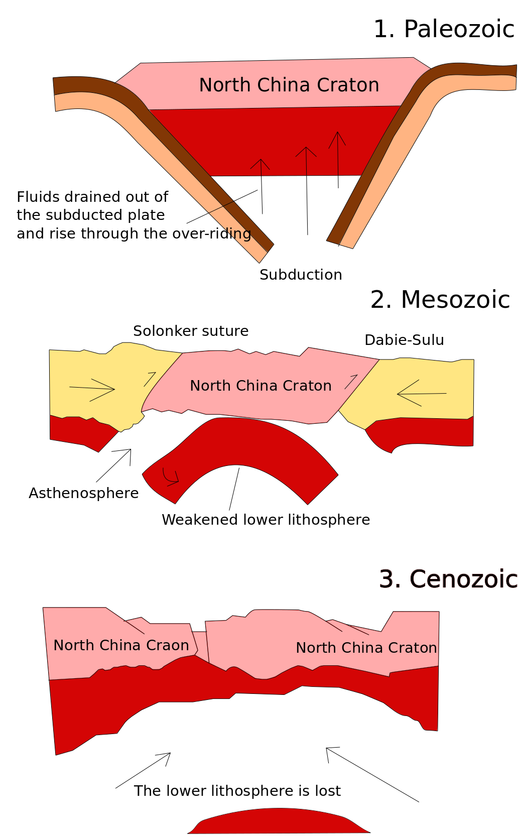 illustrating how subduction leads to root lost event in the Phanerozoic